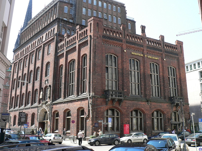 This is a photograph of an architectural monument.